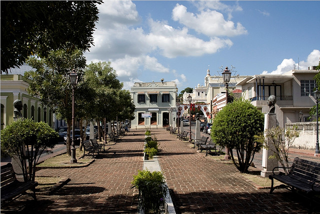 Time stands still in San Germán, Puerto Rico